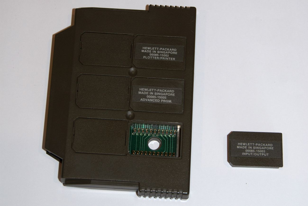 A Hewlett-Packard 82936A ROM Drawer for the Series 80 desktop computers. Two ROM modules are installed, a third is shown removed from its receptacle.